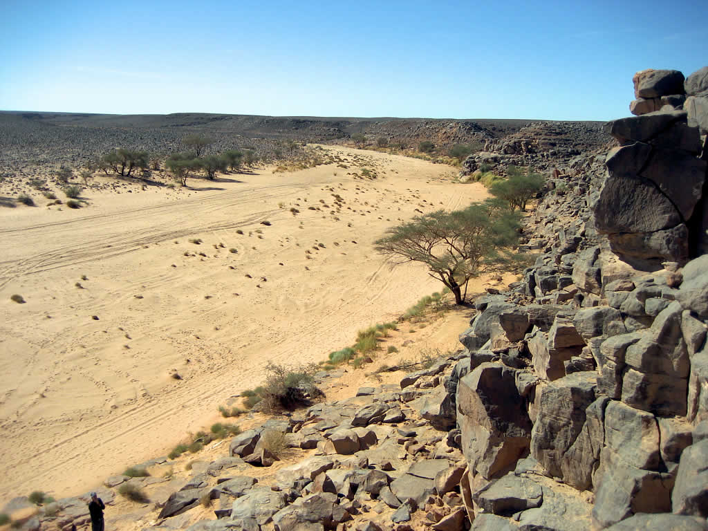 Wadi Matkhandoush, site of prehistoric rock carvings.